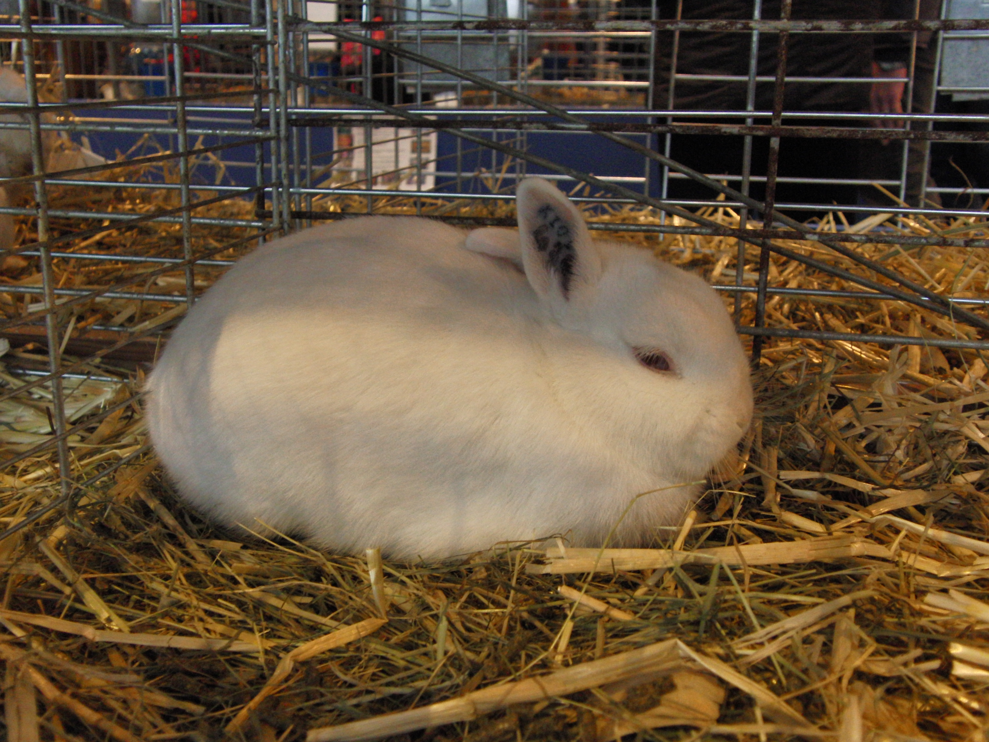 Polish rabbit - Paris International Agricultural Show 2011, France